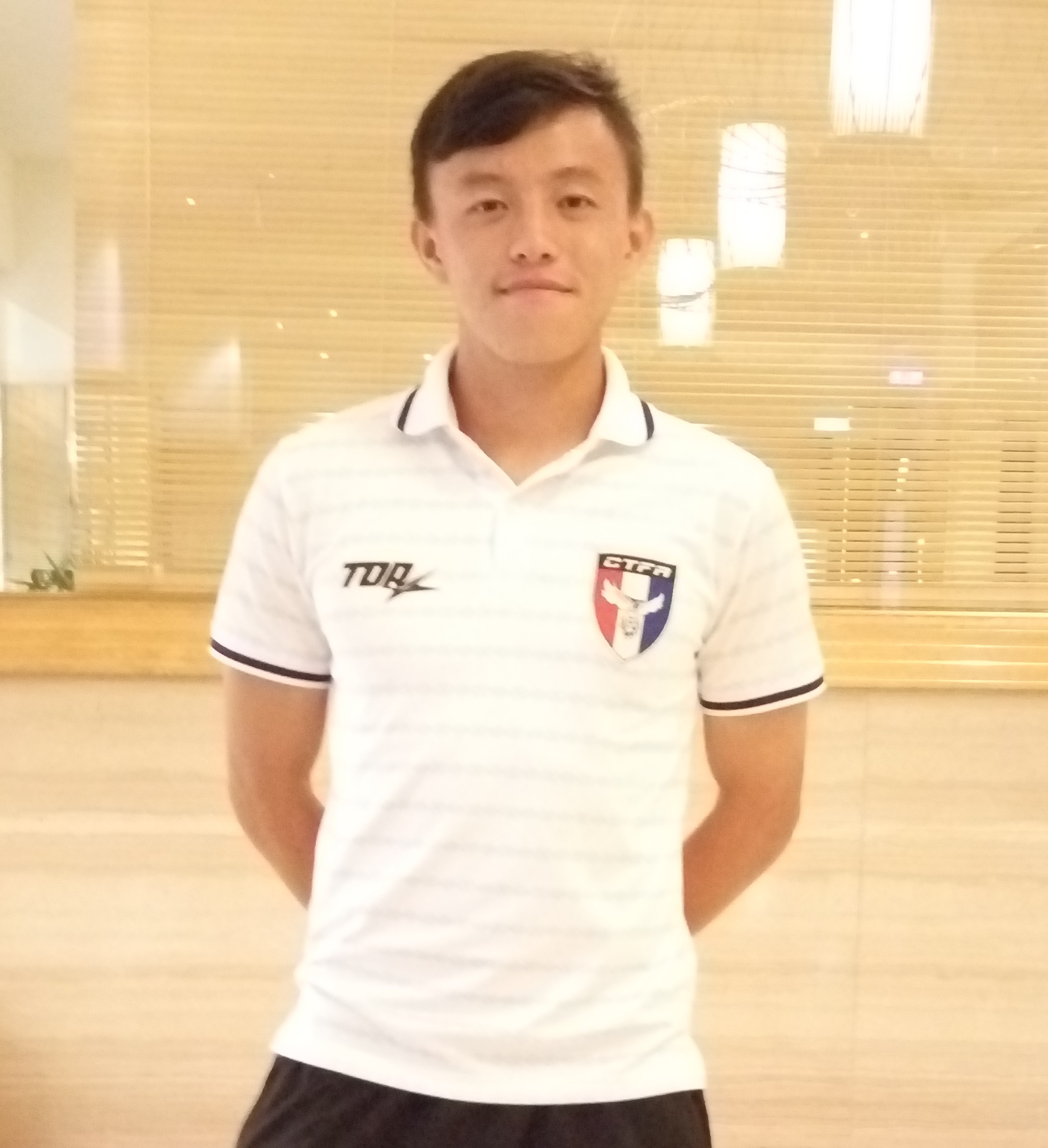 Taiwan Football Player Lin Che-Yu